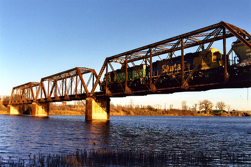 Railroad bridge over the Brazos River, Waco, Texas, USA